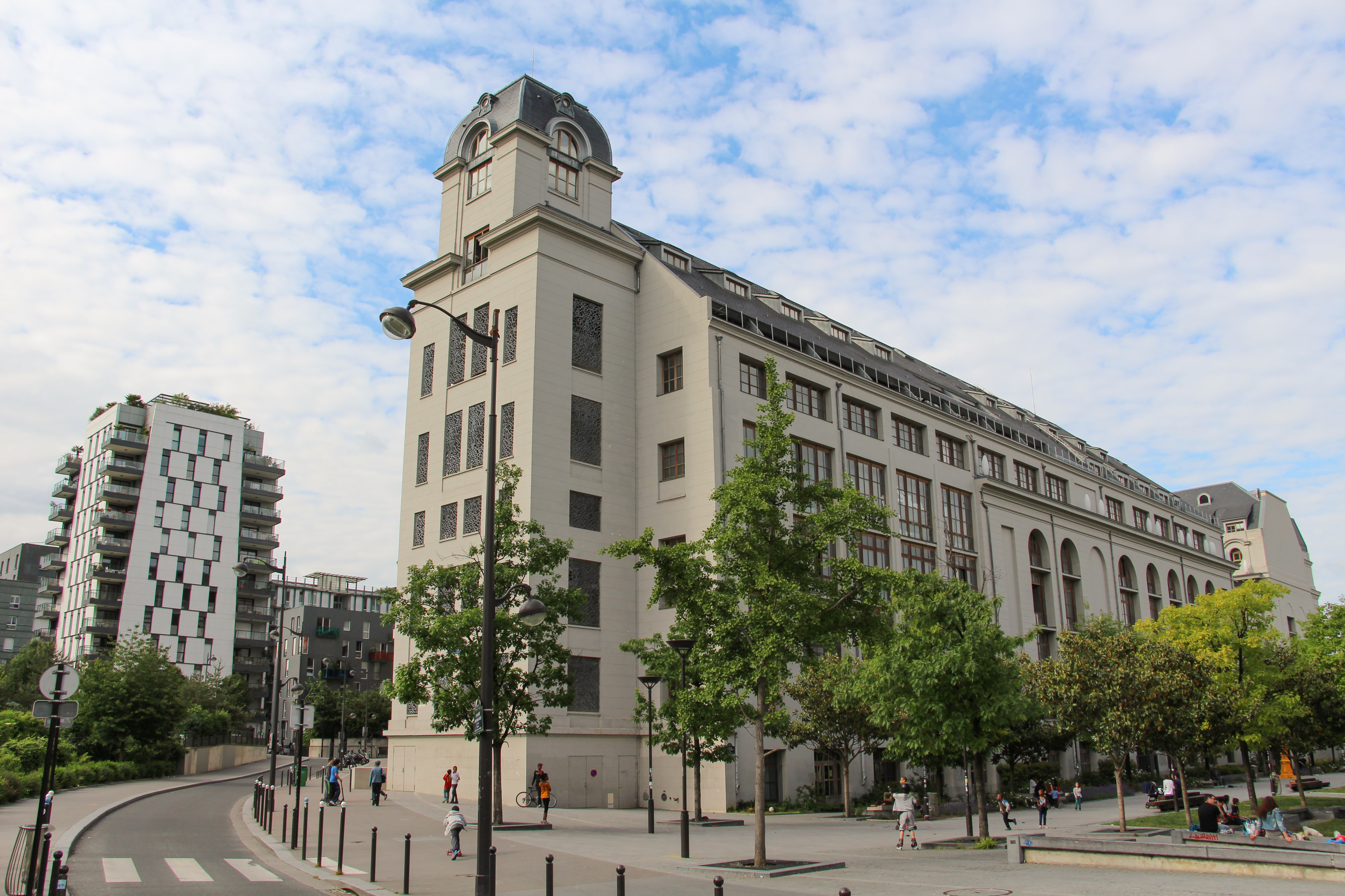 (Paris Rive Gauche) Rue Marguerite Duras/Rue Thomas Mann The Grands Moulins de Paris. Arch. Georges Wybo 1917. Now housing Paris-Diderot University Library and administrative services after huge renovation by Rudy Ricciotti in 2007. In the background, housing units designed by Pierre Charbonnier in 2009.